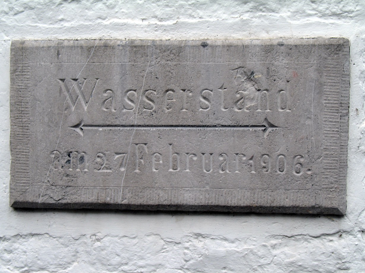 Flood level stone of the Inde flood in 1906 at the former city hall of Kornelimünster near Aachen, Germany